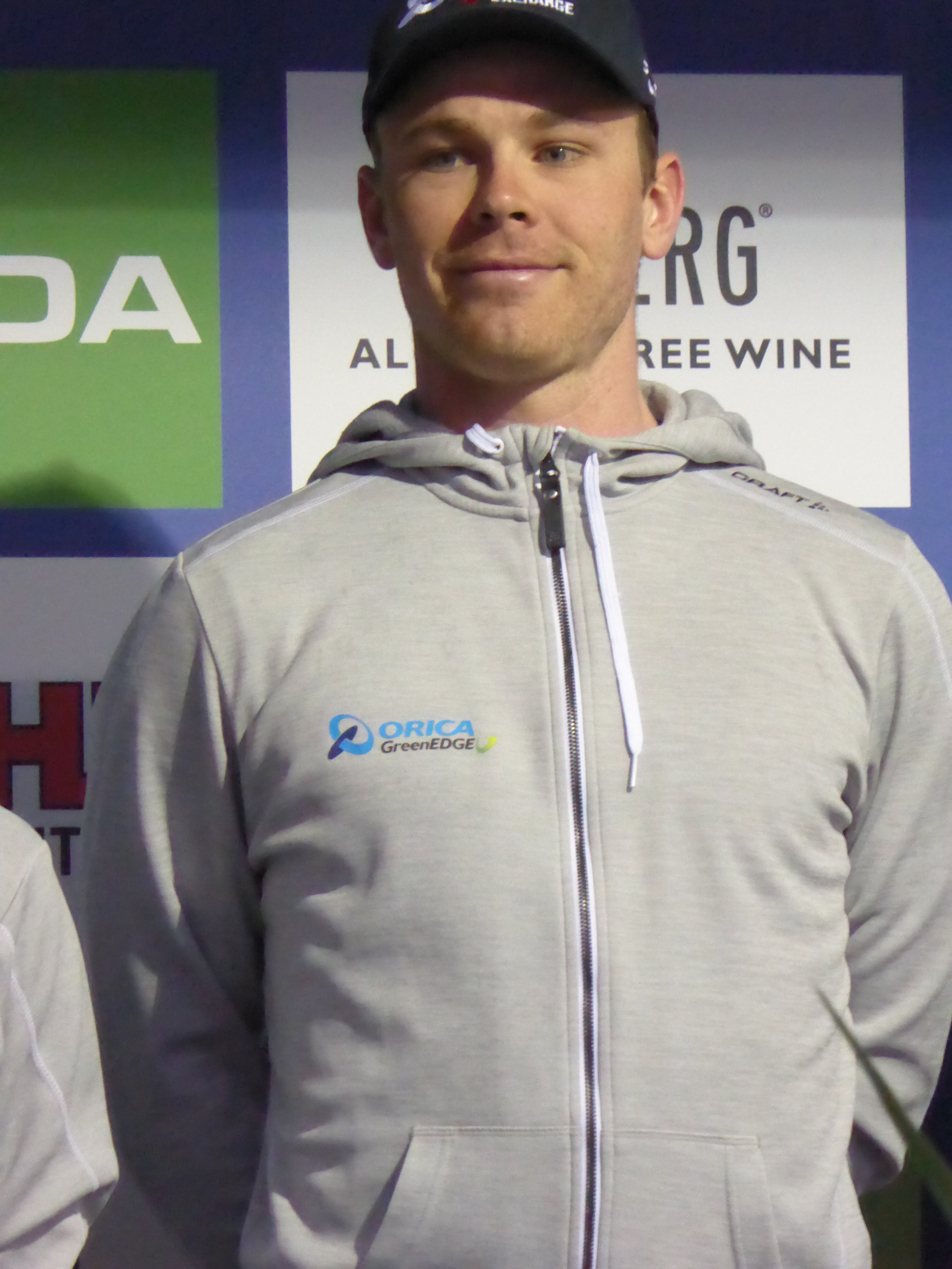 Michael Hepburn (Orica-BikeExchange), pictured at the 2016 Tour of Britain team presentation in Glasgow on 3 September 2016.